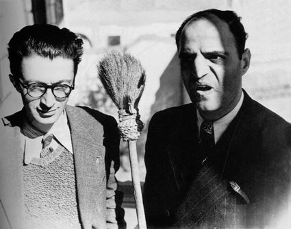 Sadegh Hedayat and Abdolhosein Nooshin in Tehran, 1947